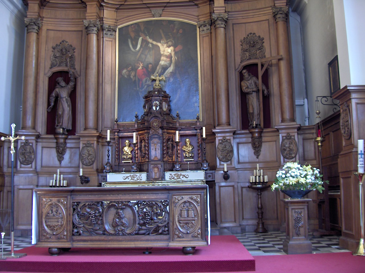 High altar of the Kapucijnenkerk; Ostend, Belgium